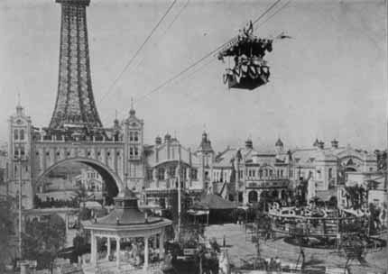 The Original Tūtenkaku, Shinsekai Luna Park, and connecting aerial tramway